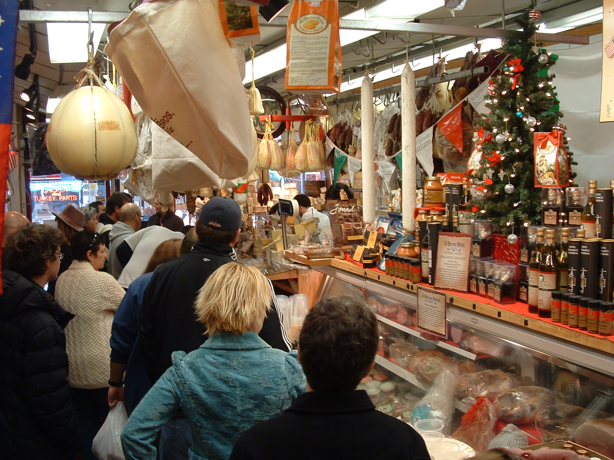 The typical weekend crowd at Di Bruno Bros. Cheese Shop in Philadelphia's Italian Market. Photograph by Brian Dunaway.